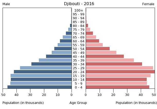 The population pyramid of Djibouti illustrates the age and sex structure of population and may provide insights about political and social stability, as well as economic development. The population is distributed along the horizontal axis, with males shown on the left and females on the right. The male and female populations are broken down into 5-year age groups represented as horizontal bars along the vertical axis, with the youngest age groups at the bottom and the oldest at the top. The shape of the population pyramid gradually evolves over time based on fertility, mortality, and international migration trends.